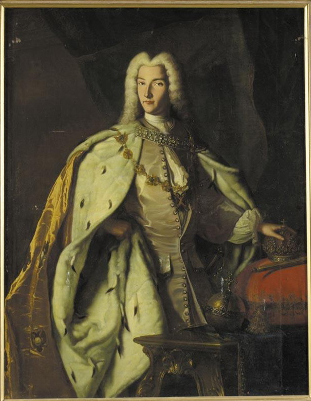 German School, 18th century PORTRAIT OF CZAR PETER II OF RUSSIA (1714-1730) DEUTSCHE SCHULE, 18.JHDT., PORTRAIT VON ZAR PETER II. VON RUSSLAND (1714-1730) Three-quarter length, standing, wearing a purple jacket resting his hand on a crown on a table to his left Oil on canvas 148 by 113 cm.